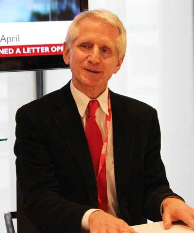 BBC News Executive Stephen Mitchell, Photo by Megan Happ. ©Boston University News Service